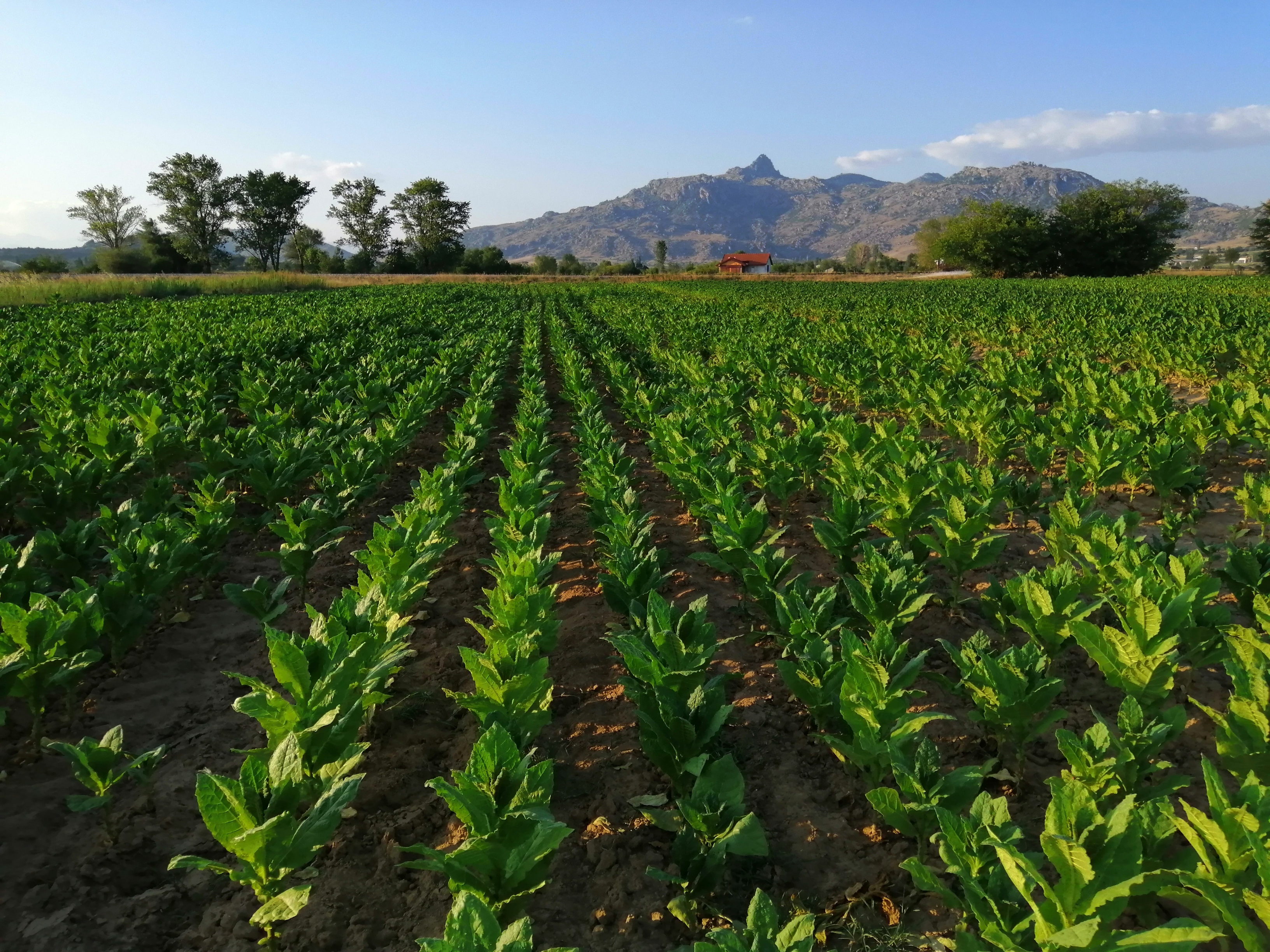 Tobacco field near Prilep, Republic of Macedonia